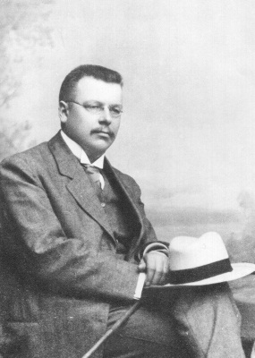 J.K. Paasikivi in 1907.